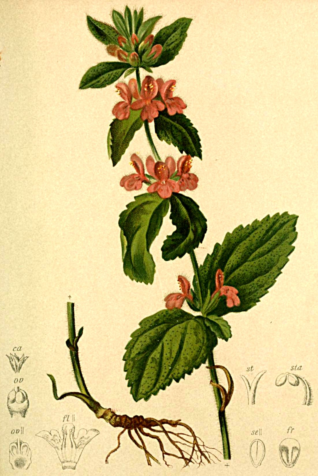 Stachys alpina